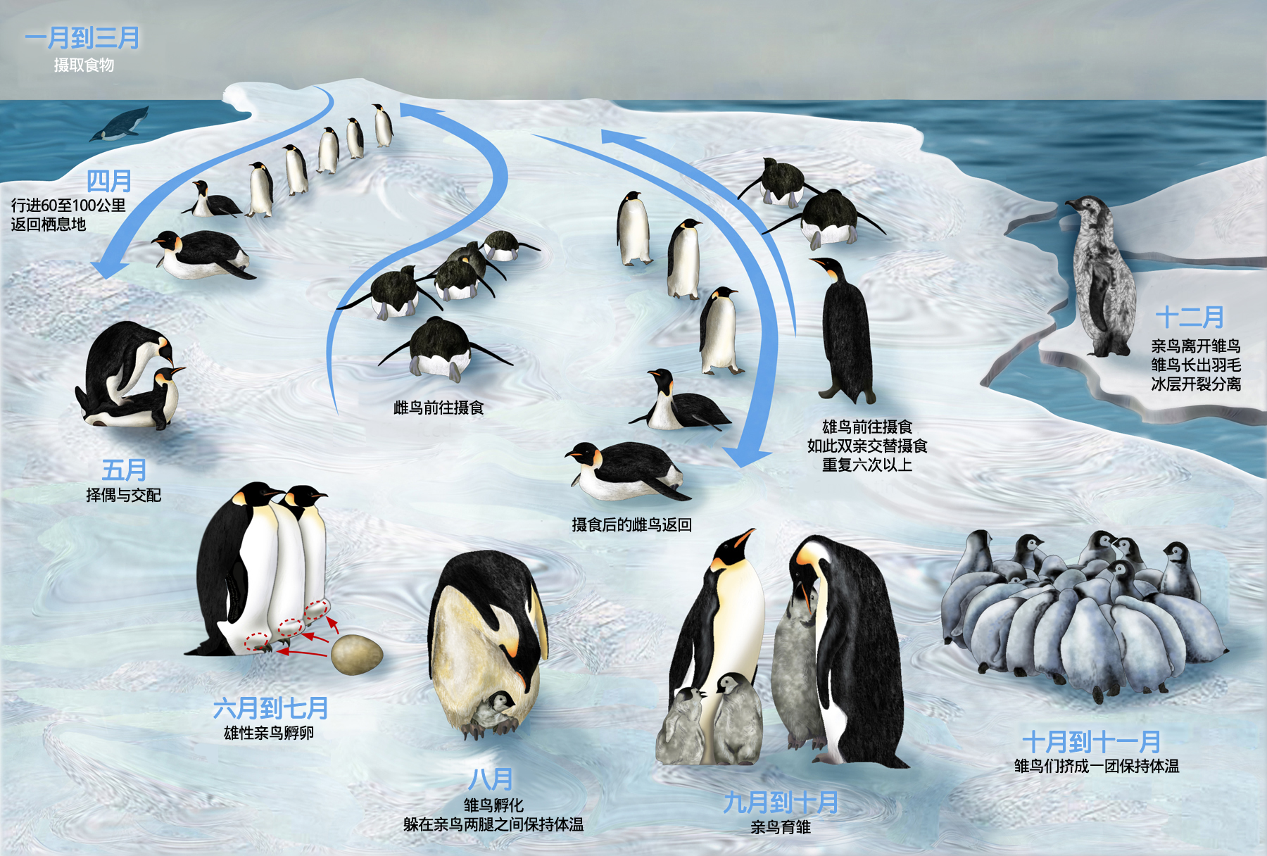 Lifecycle of the Emperor Penguin